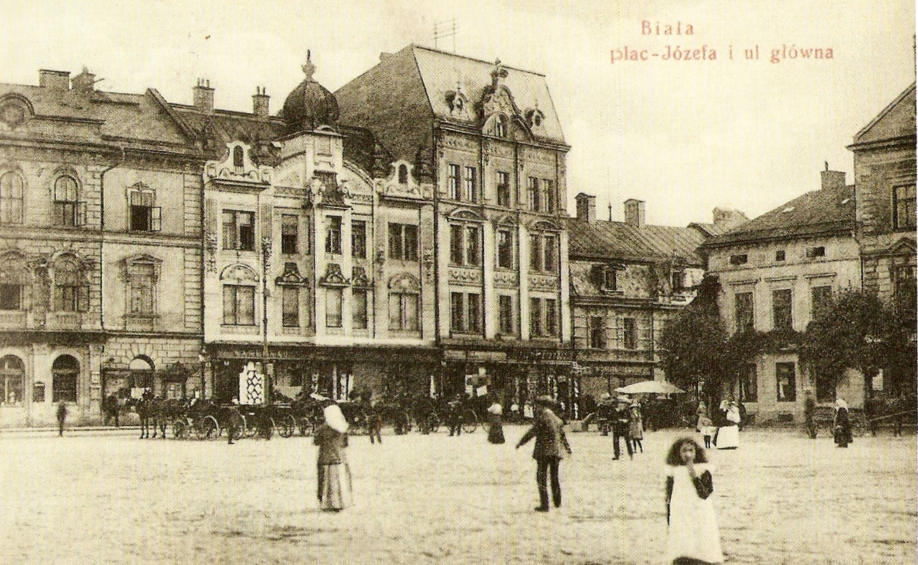 Bielsko-Biała, Poland. Wojska Polskiego Square in 1910 - southwest angle.